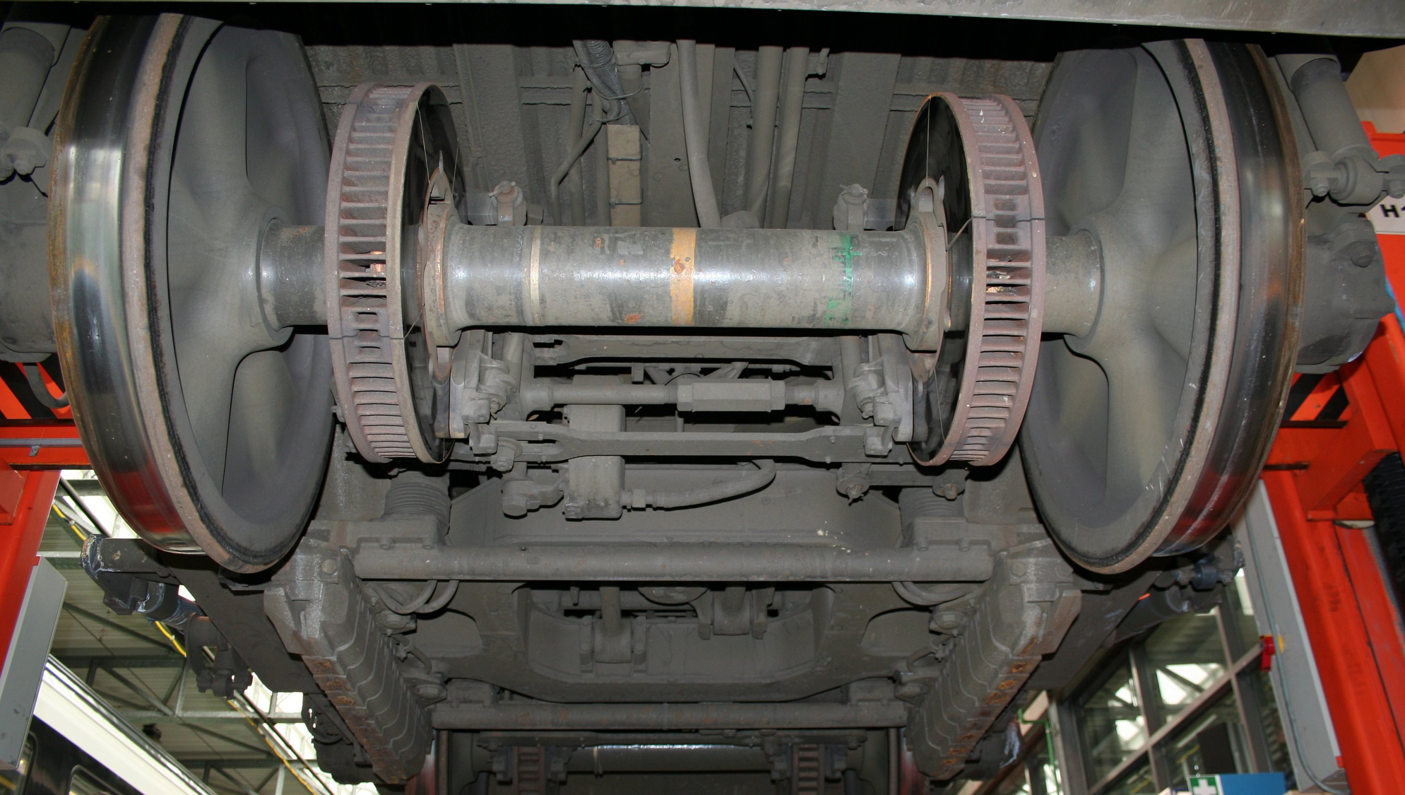 Drehgestell eines SBB Eurocity-Wagens / Bogie of a SBB Eurocity passenger coach